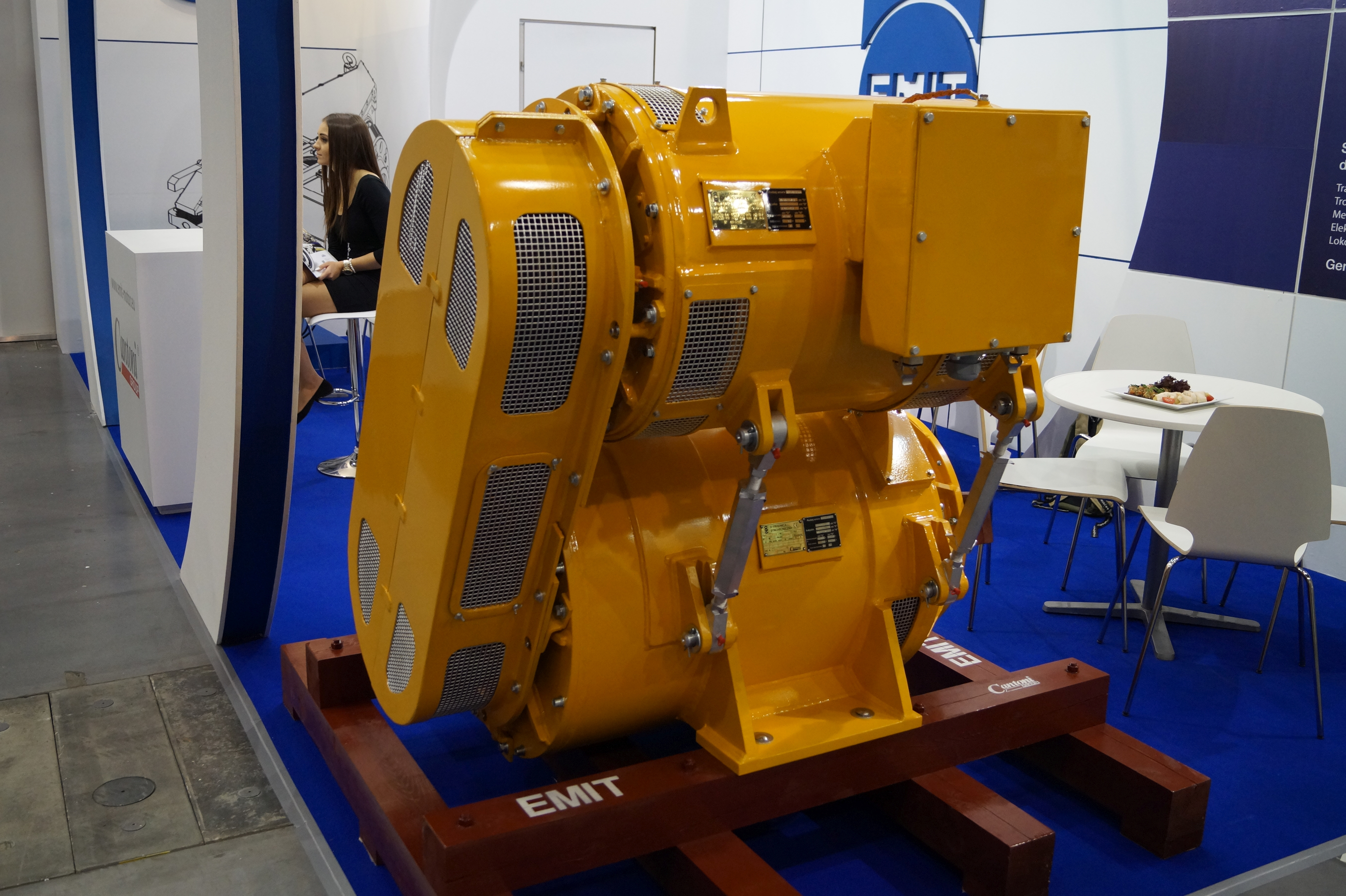 The making of this document was supported by Wikimedia Polska Association, within Wikigrant no. WG 2015-34. English | polski | +/− Prądnica synchroniczna prezentowana przez Emit Żychlin na Targach Trako 2015